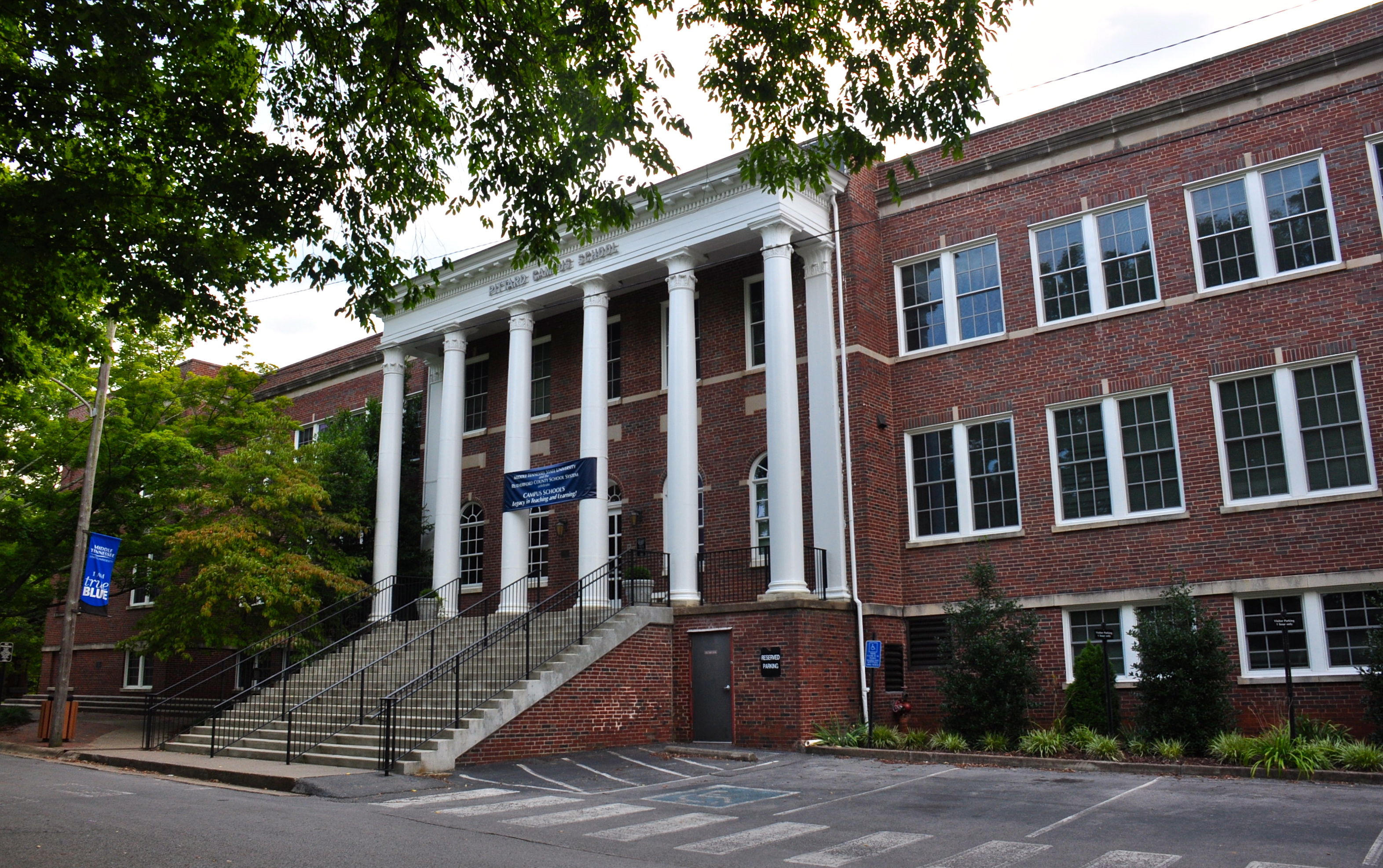 Homer Pittard Campus School, formerly Middle Tennessee State Teachers College Training School, 923 E. Lytle St. Murfreesboro